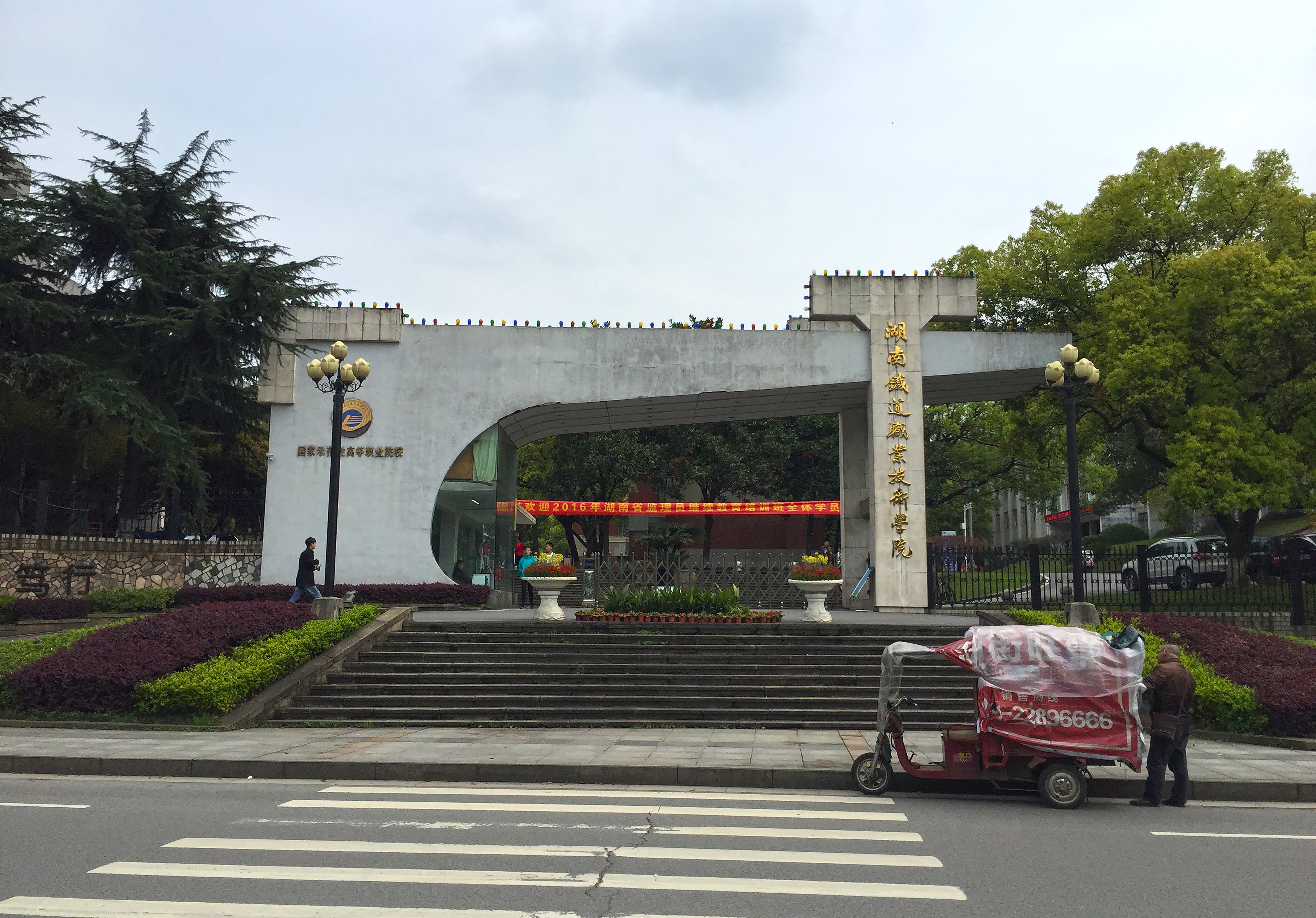 Right in Tianxinduan (commonly called Tianxin), Zhuzhou.